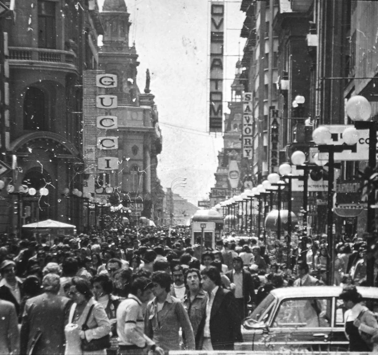 Paseo Ahumada on Santiago de Chile, seen from Agustinas corner, in 1977, shortly after its opening. In the left part we can see a belfry of the Santiago Cathedral and a billboard from Gucci. In the right part we can see billboards and signs of brands Oveja Tomé (textile), Hucke (chocolates), Savory (ice creams), Ópticas Hammersley (glasses), and Cooperativa Vitalicia (insurance). In the middle part, between the crowd, we can see a phone booth from then-named Compañía de Teléfonos de Chile.